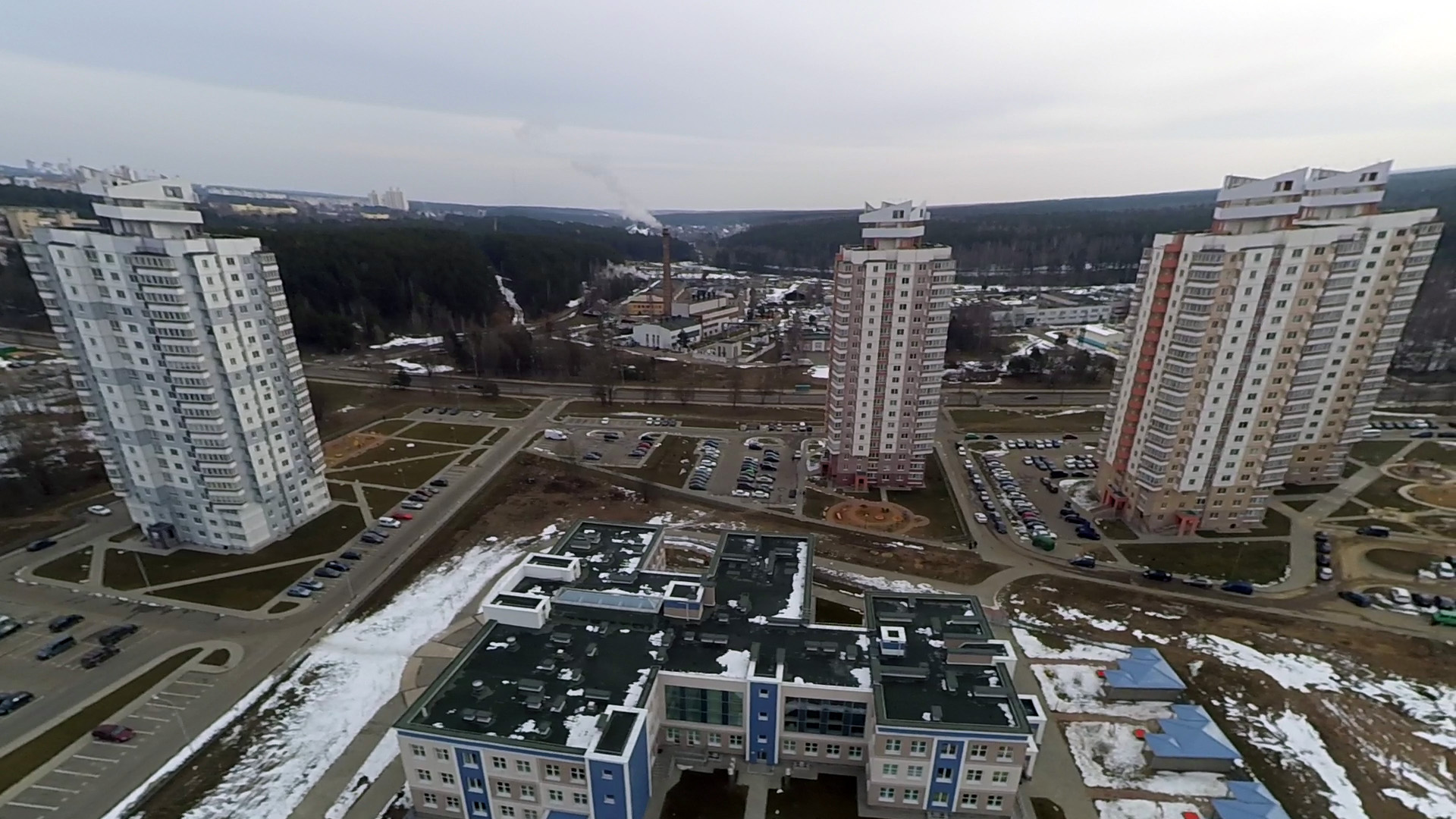 Pyershamayski District, Minsk, Belarus